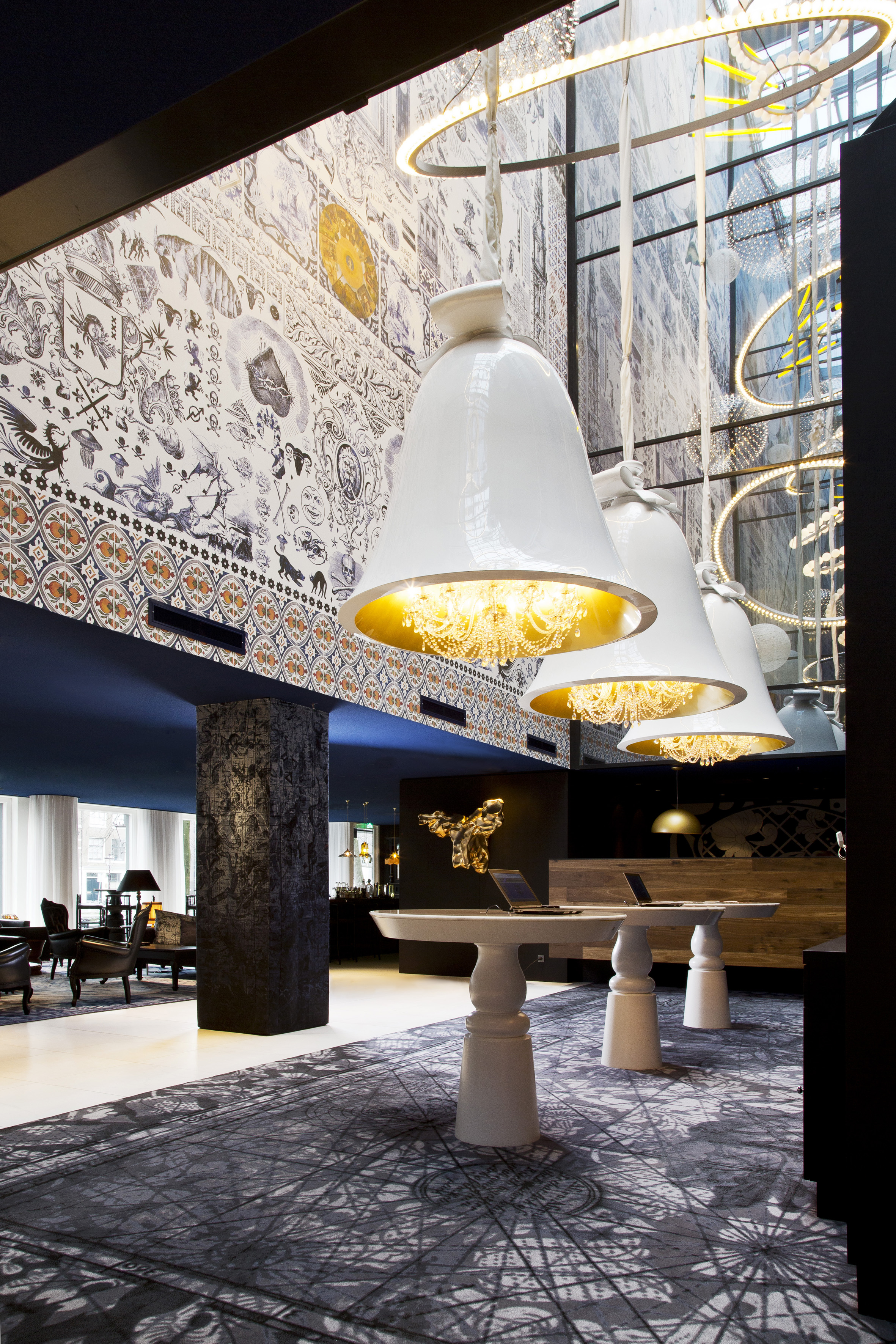 Andaz Lobby